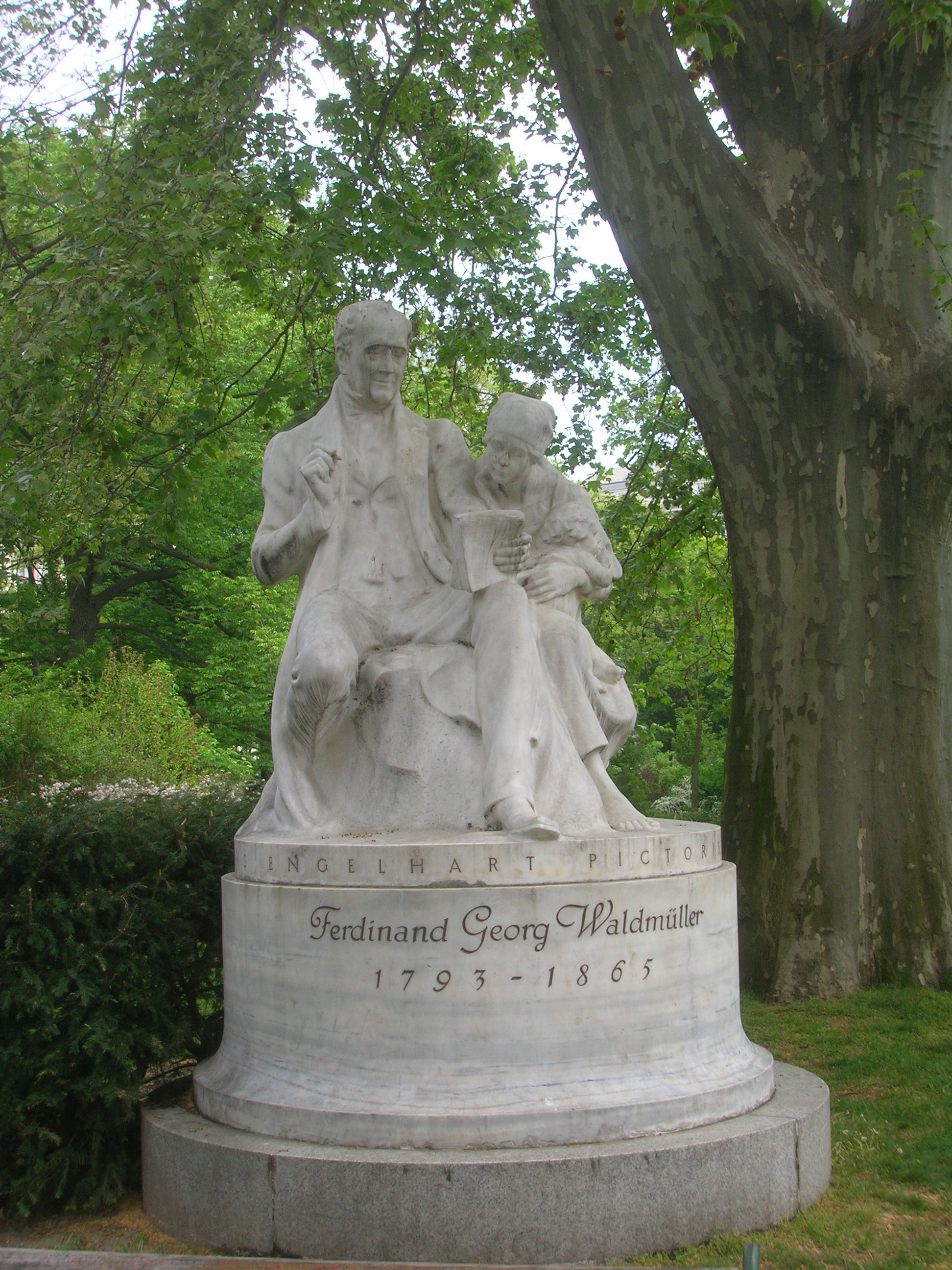 Statue of Ferdinand Georg Waldmüller in the Rathauspark in Vienna, Austria